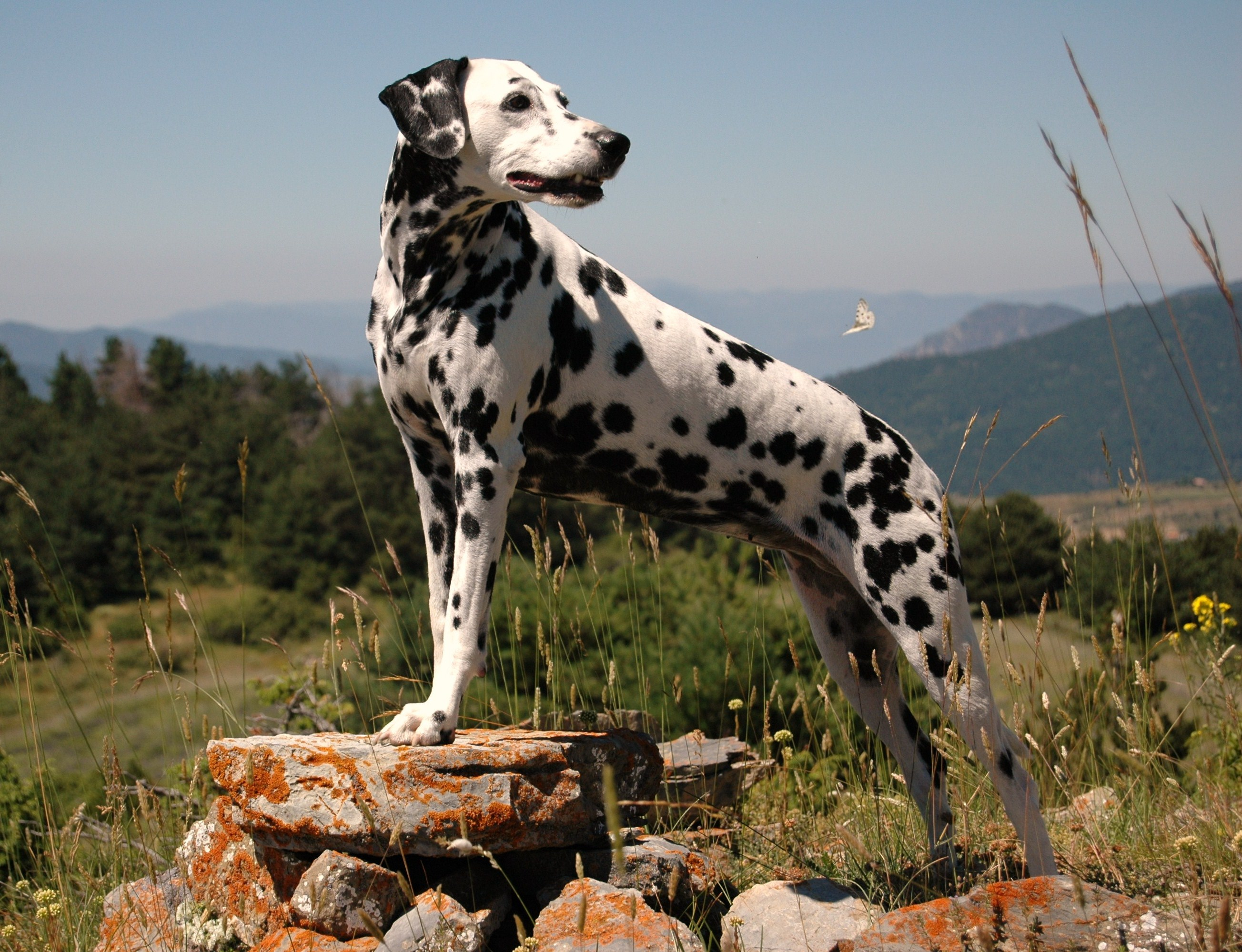 A 7 year-old female of dalmatian on the Catalan Pyrenees.